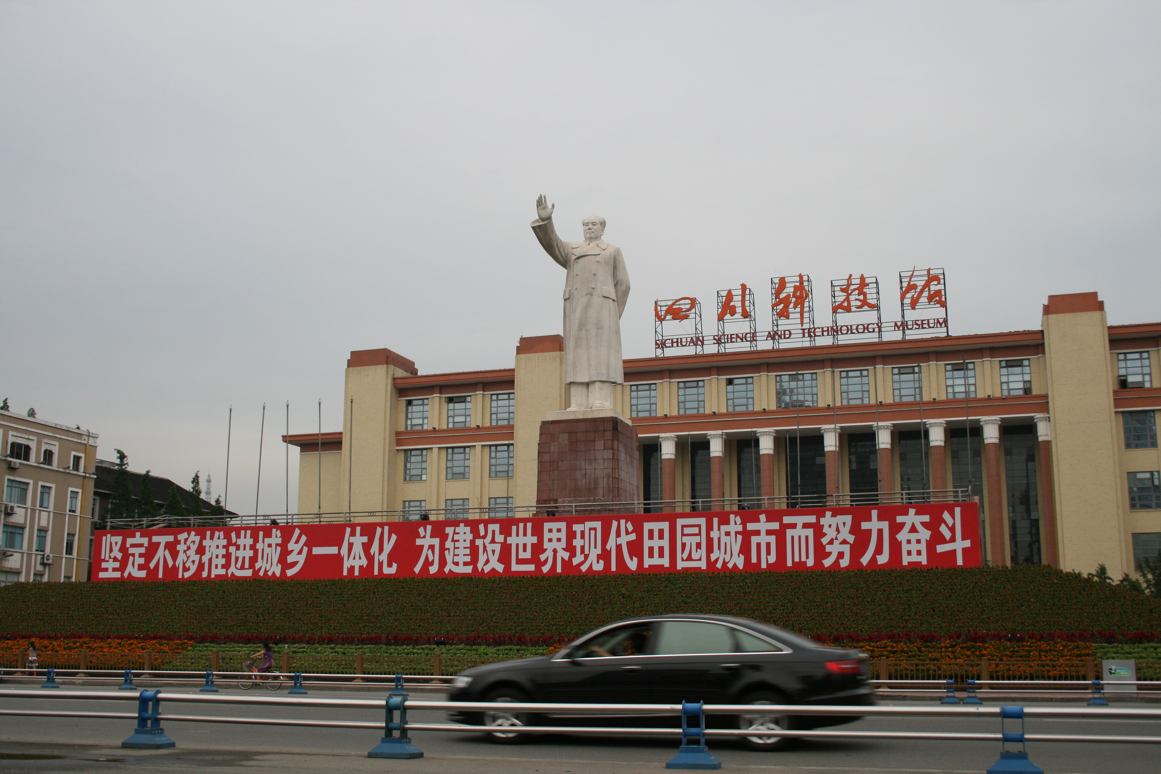 The monument of Mao Zedong on Tianfu Square, Chengdu